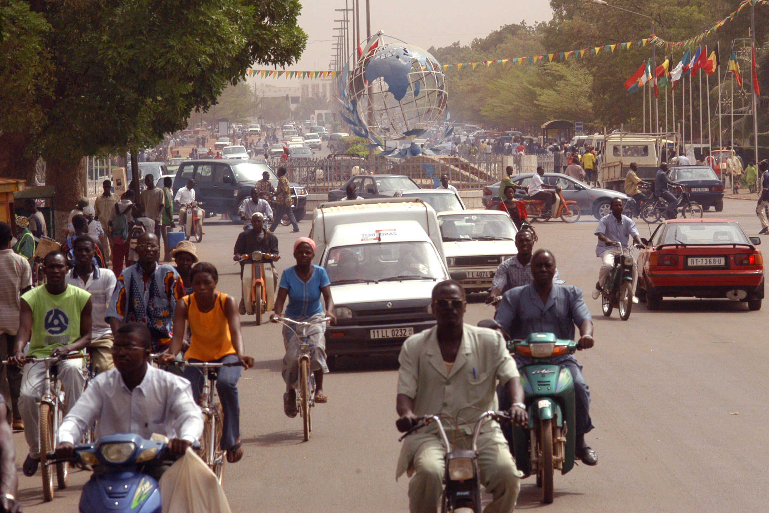 Typical street scene in Ouagadougou, Burkina Faso. Shows the well-known Place des Nations Unies (United Nations Square). The flags on the right mark the entrance to the main FESPACO building. Taken in March 2005.